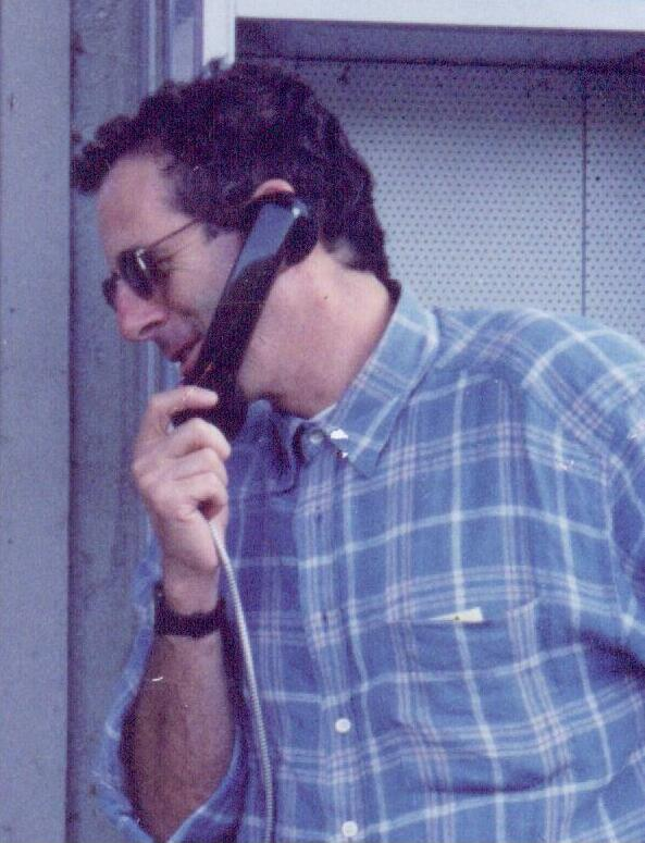 Photo of Joel Swerdlow